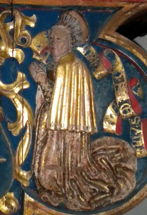 Kristina Nilsdotter Gyllenstierna (wife of regent Sten Sture the Younger) depicted in a 16th century altar sculpture at West Aros (Västerås) Cathedral contemporary with her, as released by image creator RistessonPlace: West Aros, Sweden